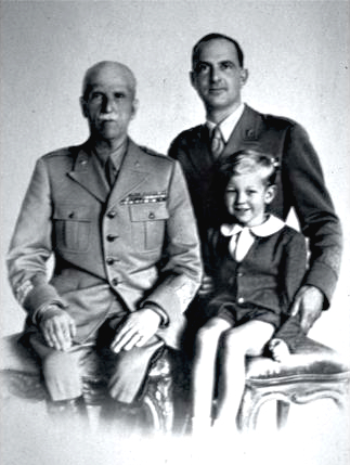 Victor Emmanuel III of Italy with son Umberto and grandson Vittorio